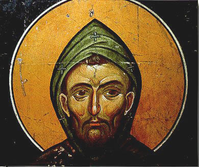 Fresco of saint Gavril of Lesnovo, Lesnovo monastery XIV century, Republic of Macedonia